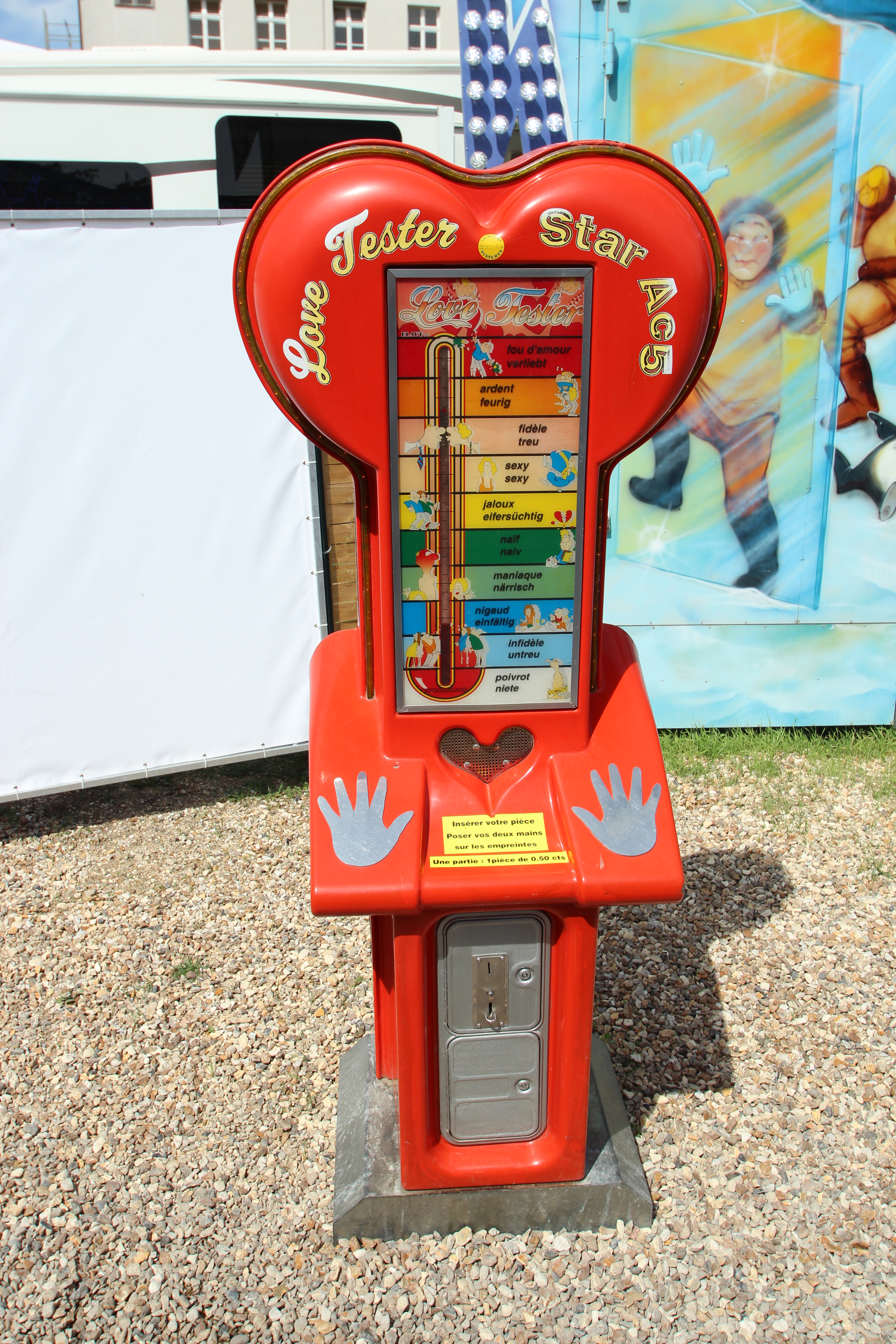 Fête des Loges fair in Saint-Germain-en-Laye, France. This image was uploaded as part of L'Été des villes 2015.